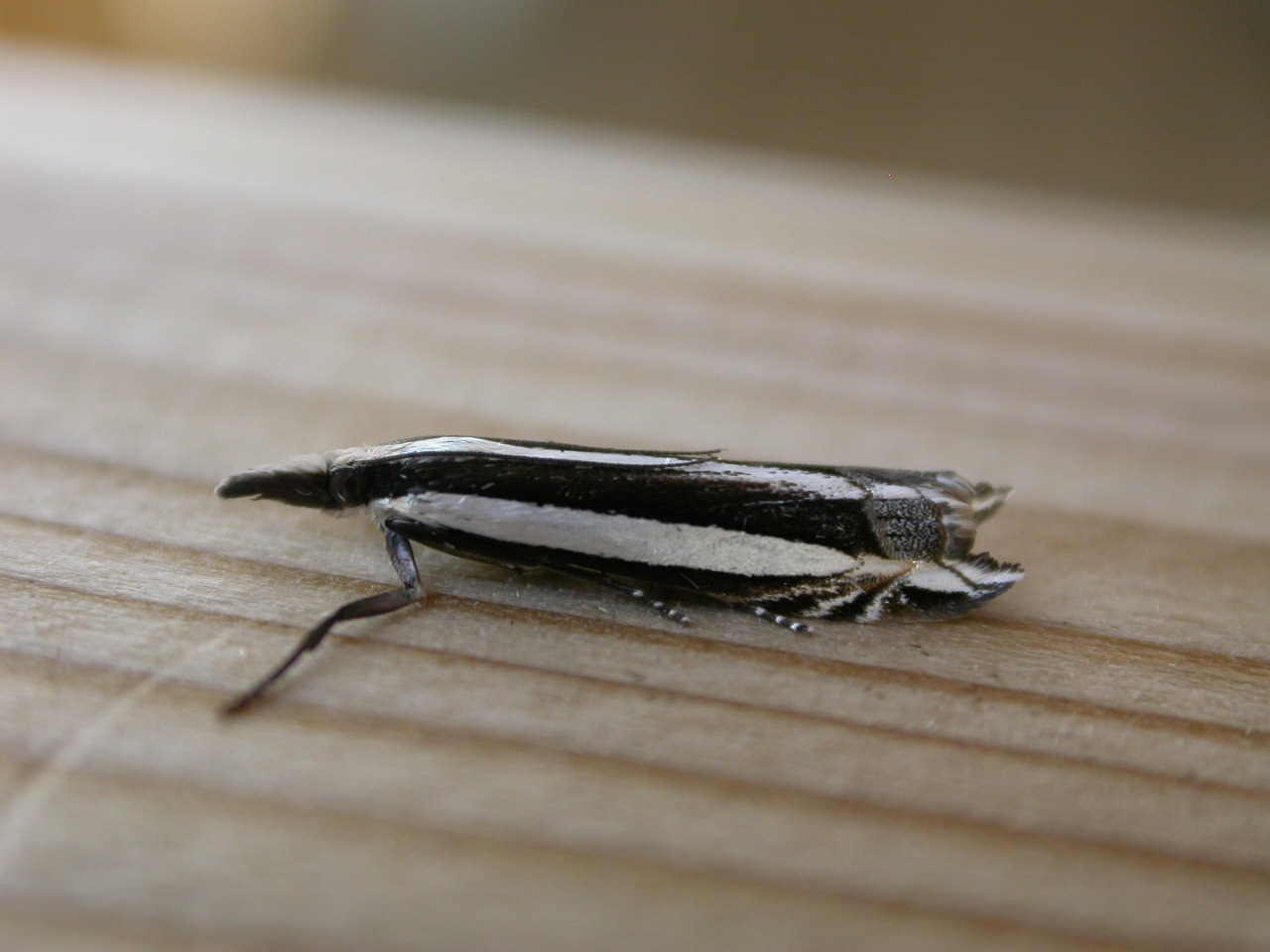 Angustalius malacellus, Gastes, Landes, SW France, 30 June/1 July 2003